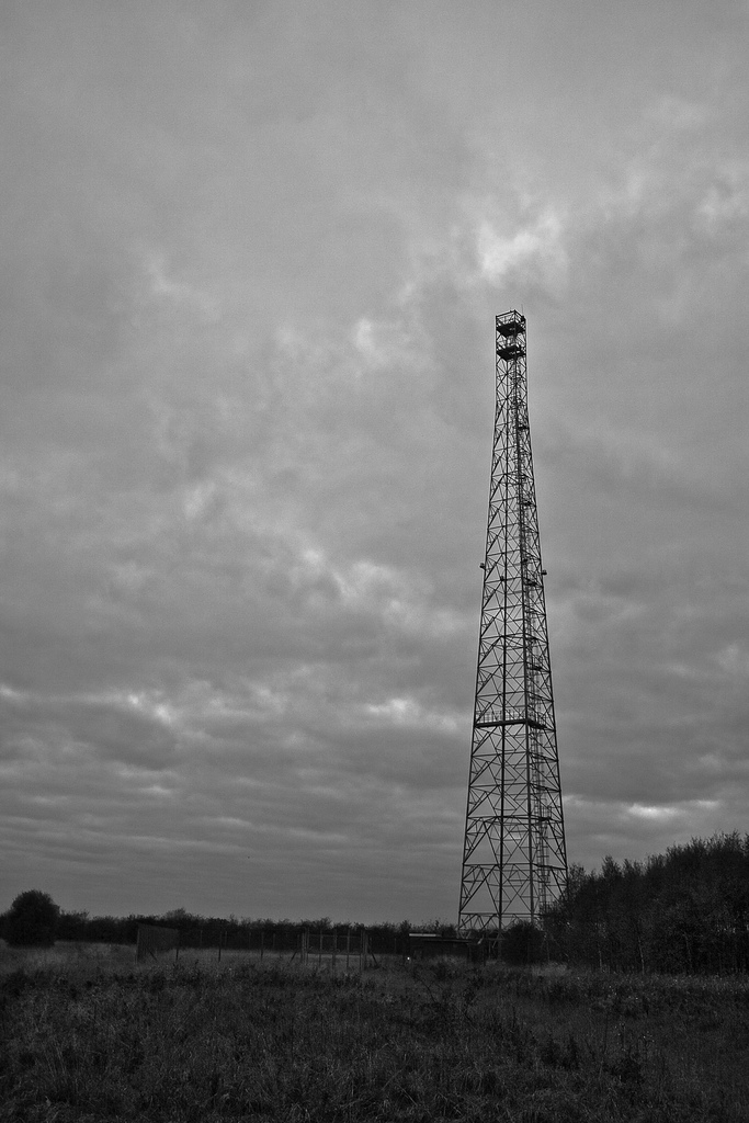 A photograph of the antenna at the former RAF base outside the village of Chenies, Buckinghamshire, England.